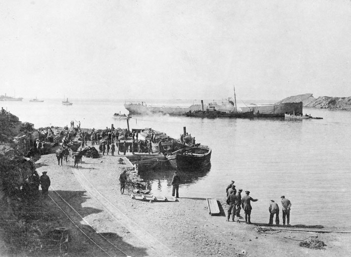 The Royal Australian Naval Bridging Train towing into place a hulk to form a breakwater for the boat dock at West Beach, Suvla Bay, Gallipoli, September 1915. Item AWM P01326.008 from the collection of the Australian War Memorial